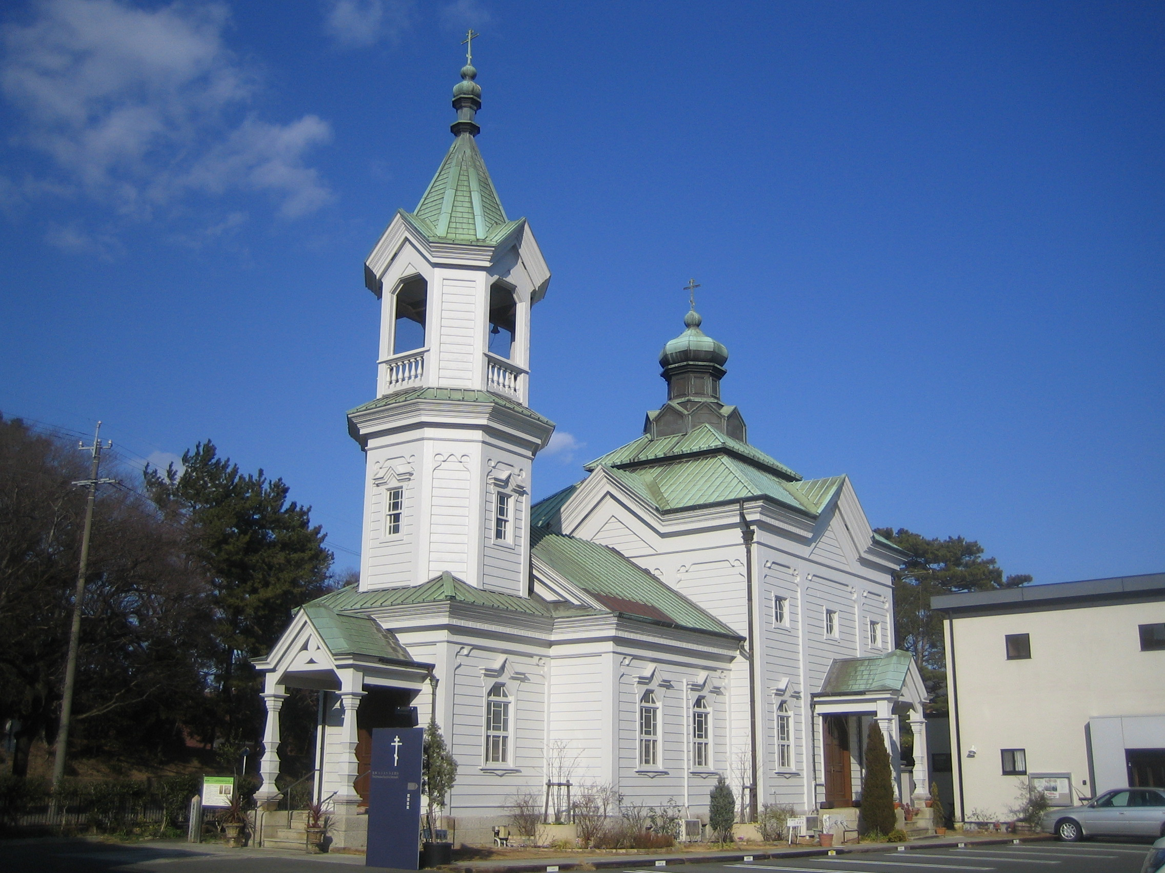 Toyohashi Orthodox Church (豊橋ハリストス正教会 Toyohashi Harisutosu Seikyōkai), located at Hacchodori, Toyohashi, Aichi, Japan